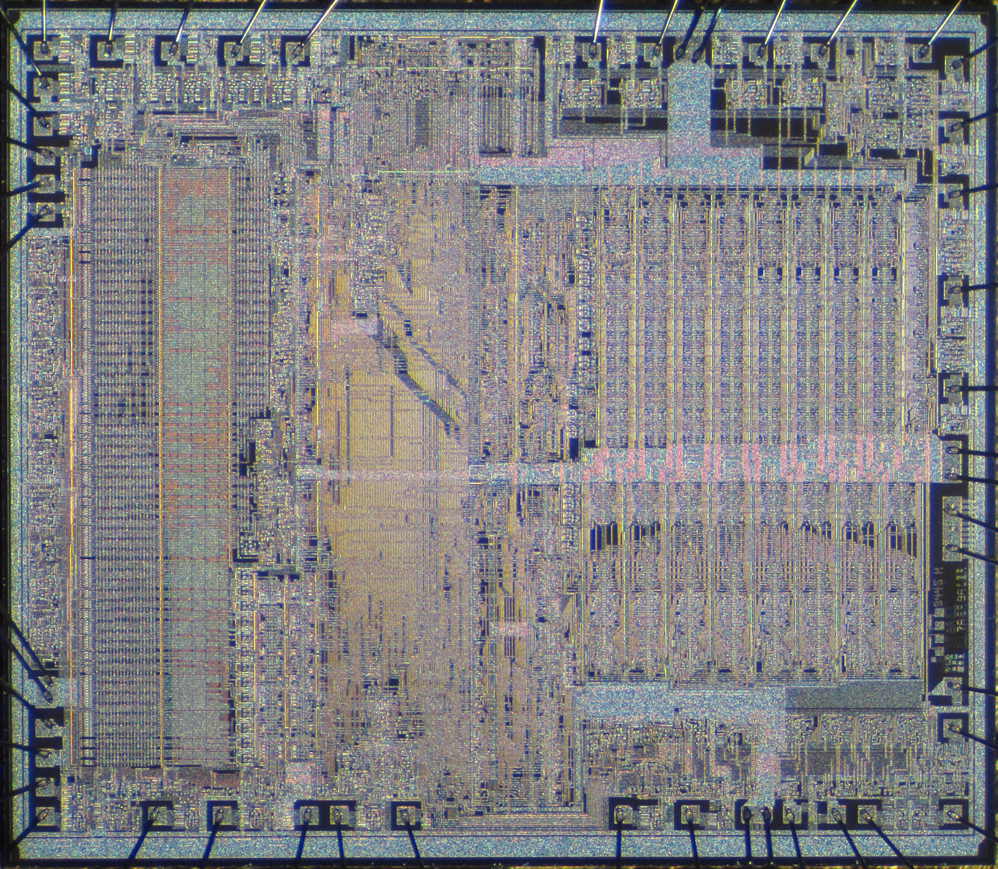 Die shot of Fairchild F9445 microprocessor.